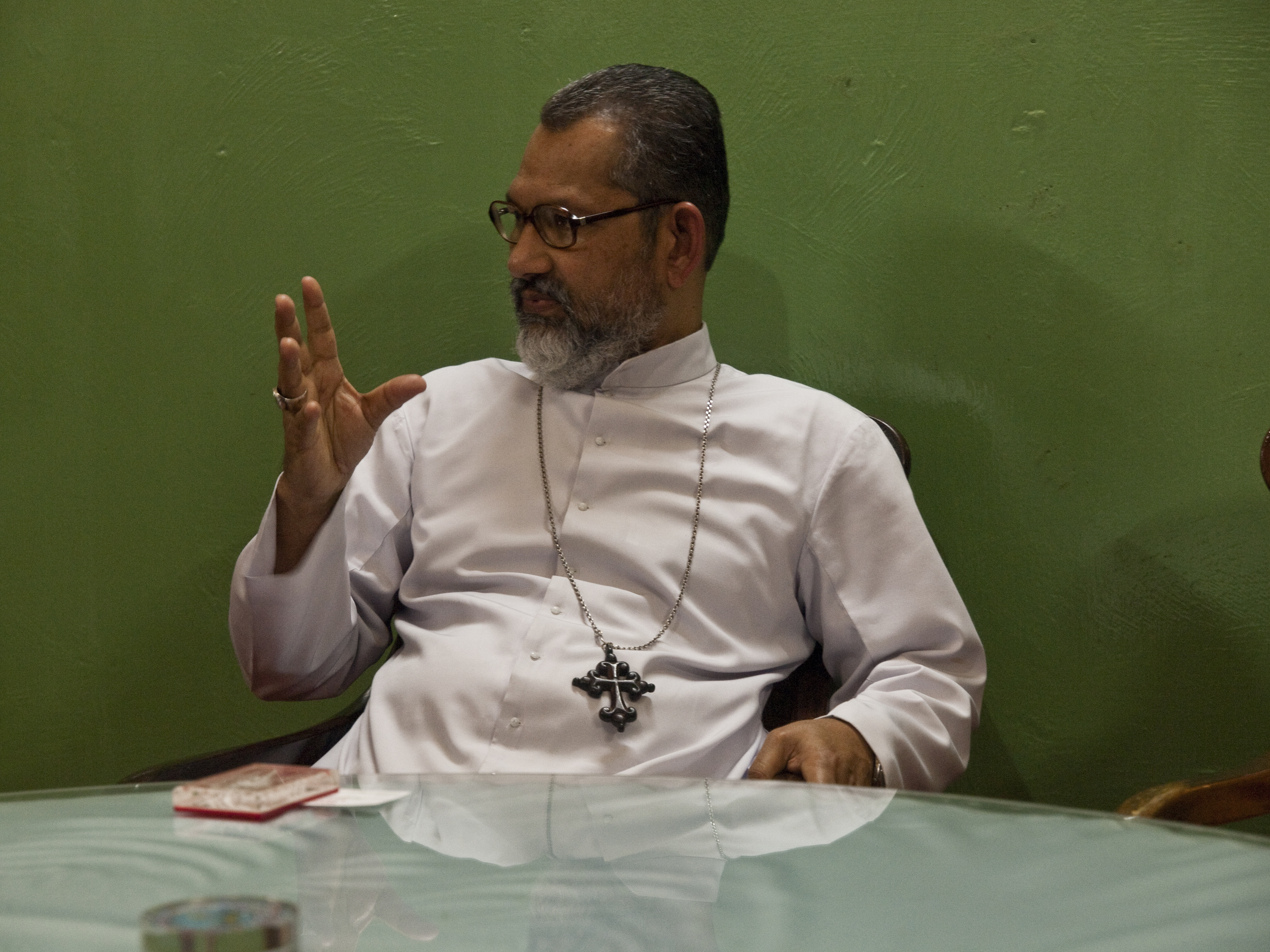 Bishop Mar Joseph Perumthottam, Archbishop of Changanassery, of the Syro-Malabar Catholic Church.